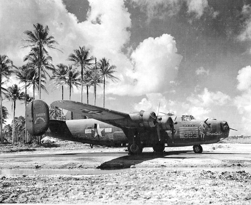 "Frenisi" B-24D-50-CO s/n 42-40323 424th Bombardment Squadron, 307th Bombardment Group, 13th Air Force Flew a total of 104 combat missions in the Pacific. Photo taken: 8 September 1944